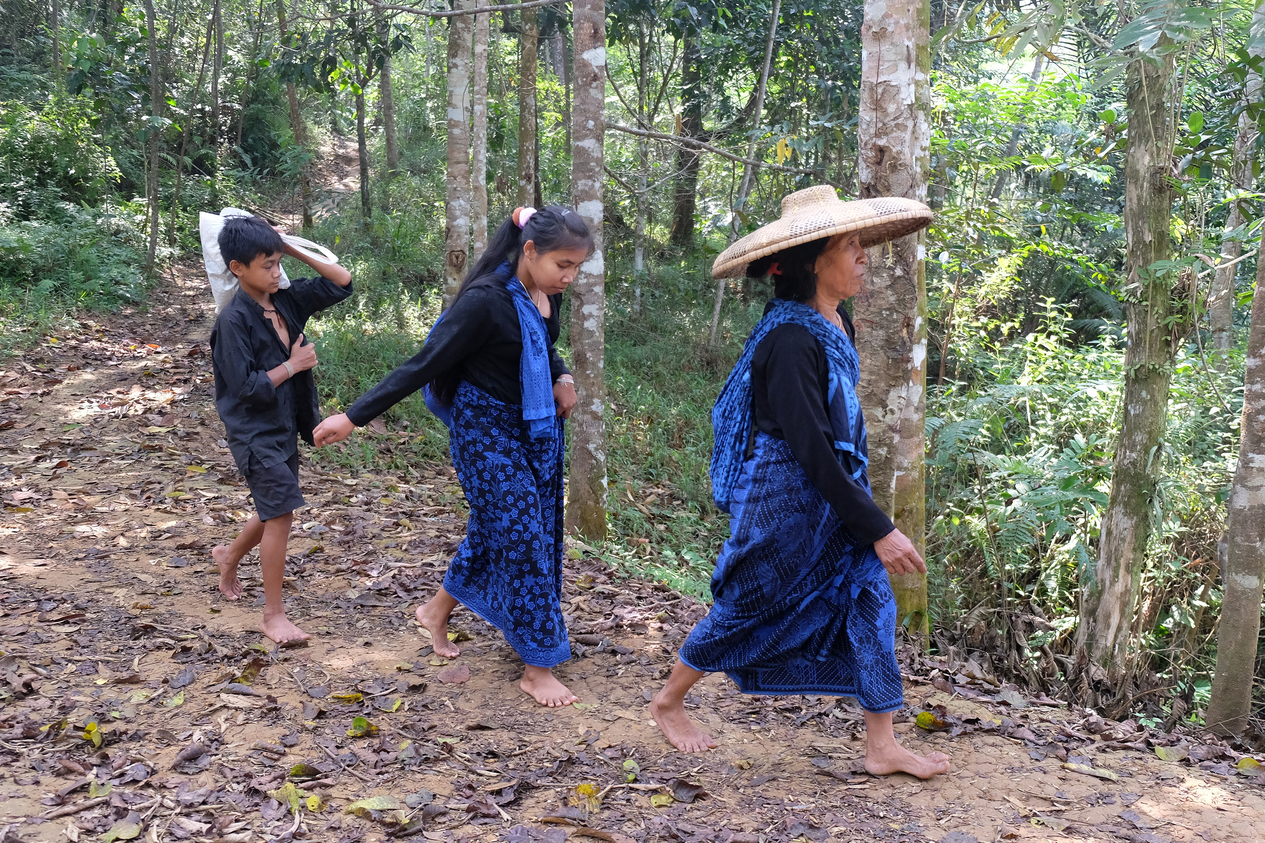 Baduy people tribeswoman clothes.